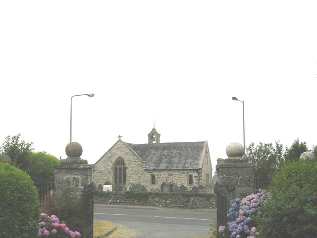 Eglwys Llanddwywe. The present church of St Dwywe, built on an ancient religious site, dates from the late 16th century. Located on the seaward side of the A494, it stands opposite the gates of Ffordd Gors (Gors Road), the mile-long, wide and straight drive leading uphill to Cors-y-Gedol mansion. In addition to a nave and chancel (the window behind the altar is on the left in the photograph) it contains the Croes-y-gedol chapel (the extension on the right). This is crammed with memorials to the Vaughan and Mostyn families.